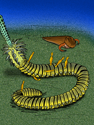 Reconstruction of the palaeoscolecid, Cricocosmia sp., and its parasite, the bottle-shaped Inquicus fellatus. From the Early Cambrian Chengjiang Fauna in Yunnan.